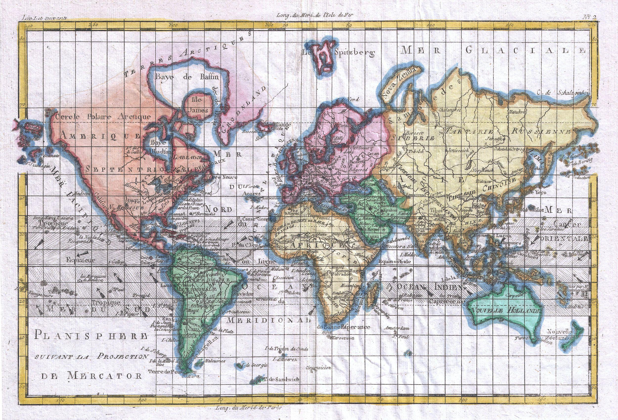 A fine example of Rigobert Bonne and G. Raynal’s 1780 map of the world on a Mercator Projection. Offers a fairly advanced perspective of the world showing the most recent discoveries and explorations. Nonetheless, there are a few interesting errors. In the northwestern part of America a pre-Cook geography includes an archipelago roughly where Alaska stands today - no doubt a primitive attempt at rendering the Aleutians. Australia, labeled Nouvelle Holland is linked to Tasmania - a misunderstanding that would be correctly shortly after the publication of this map. Bonne additionally notes ocean currents in the Tropics. Drawn by R. Bonne for G. Raynal’s Atlas de Toutes les Parties Connues du Globe Terrestre, Dressé pour l'Histoire Philosophique et Politique des Établissemens et du Commerce des Européens dans les Deux Indes.